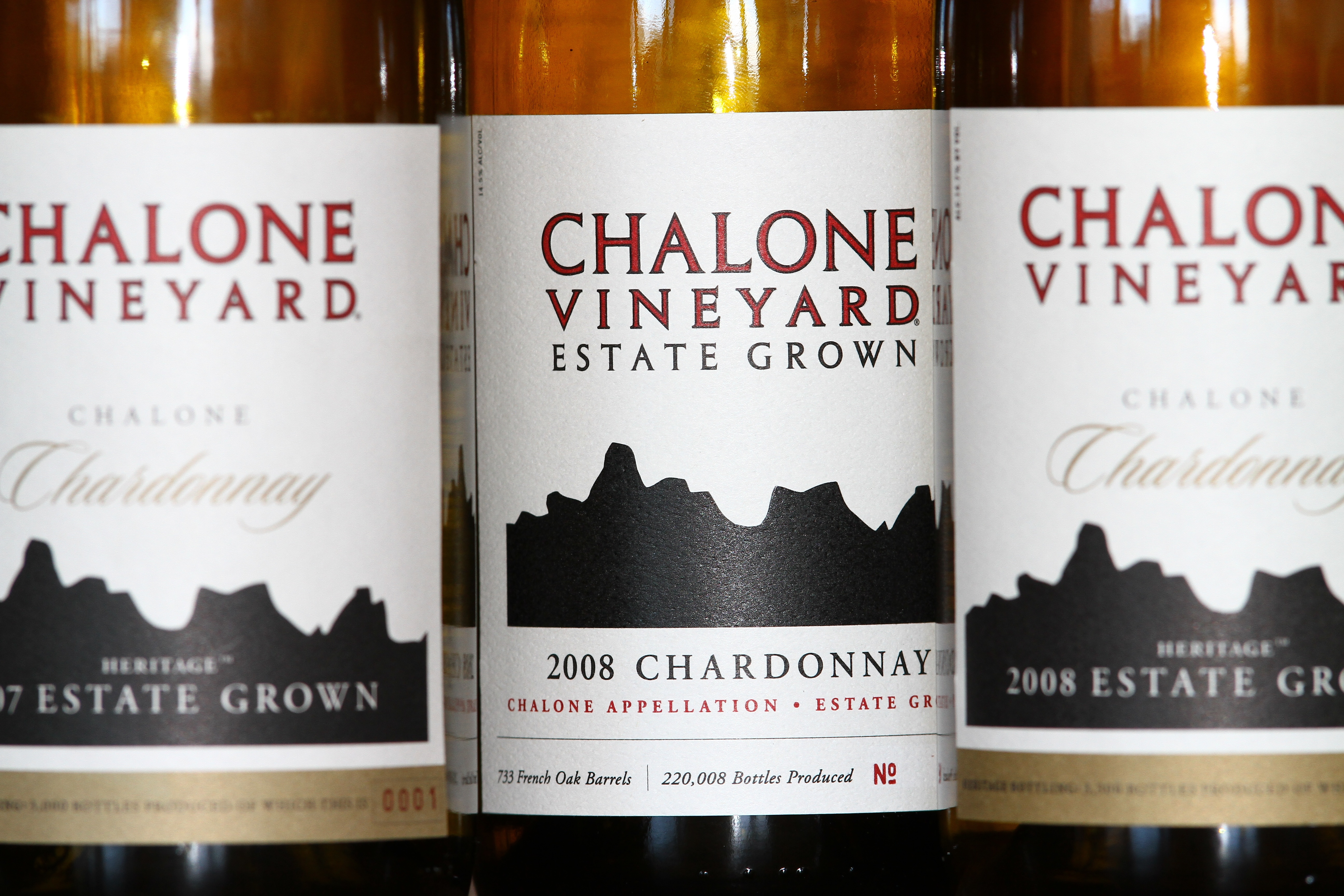 Bottle shot of Chalone Estate Chardonnay